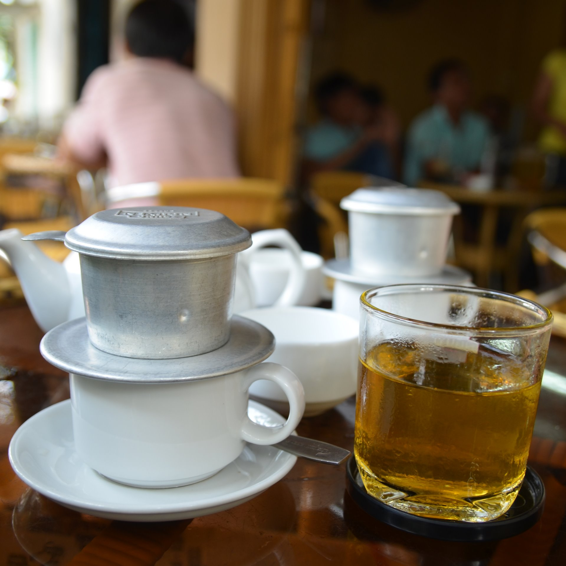 A café filtre served at a sidewalk café in Ho Chi Minh City. In southern Vietnam, a cup of coffee is often accompanied by a cup of hot or cold tea. In northern Vietnam, this is not the case and the coffee is often twice as expensive.